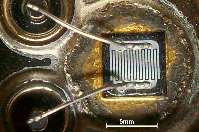 die and wire bonds on an older model of bipolar power transistor